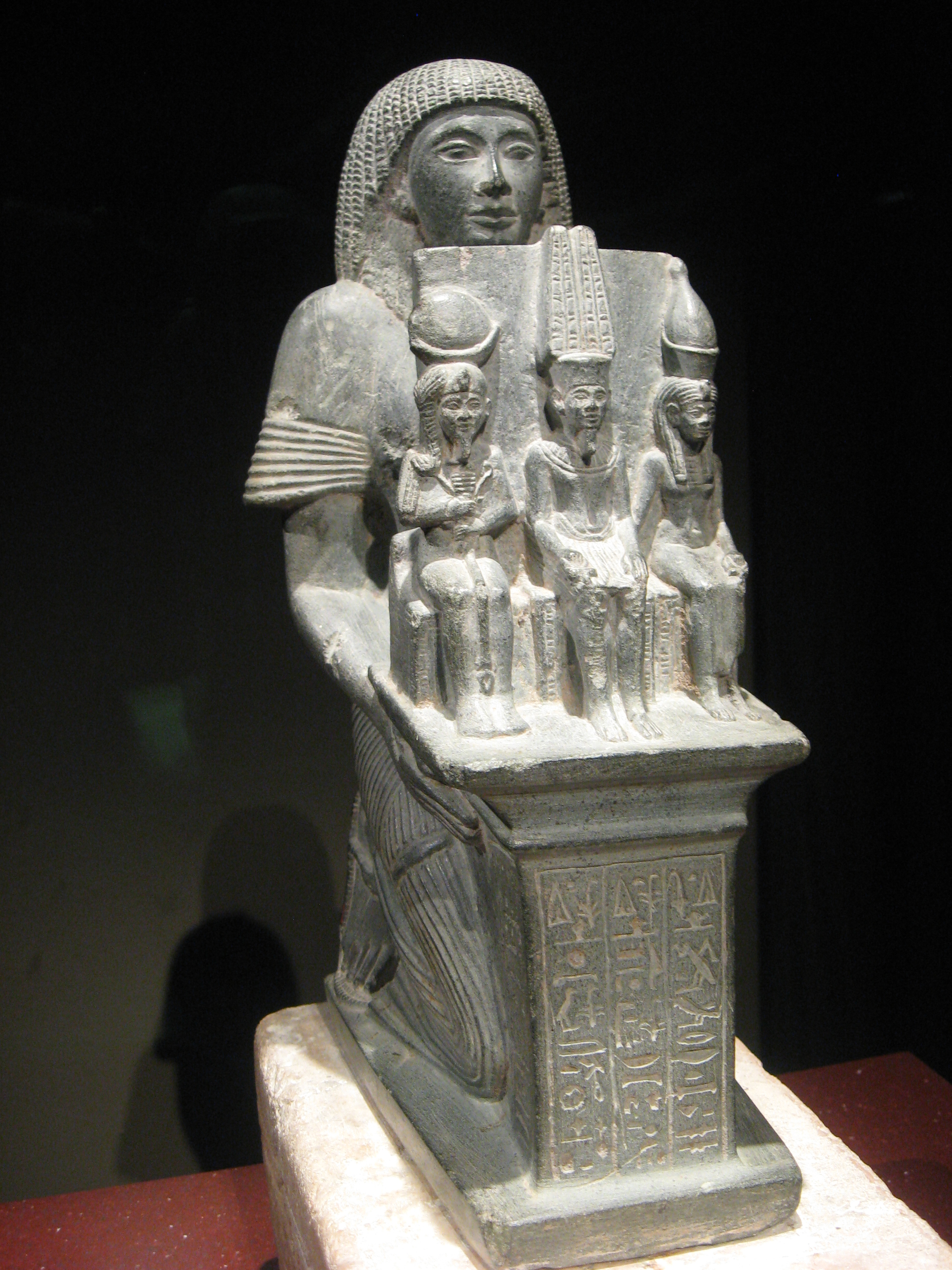 A statue of Ramessesnakht, the High Priest of Amun at Thebes under Ramesses IV, 20th Dynasty. This is a schist, statue with a calcite base. It depicts the Triad = Amun & Mut as parents, Khonsu as son (note K's side-braid). Its catalogue number is Egyptian Museum CG 42163. Ramessesnakht served as High Priest of Amun from the reigns of Ramesses IV until that of Ramesses IX.